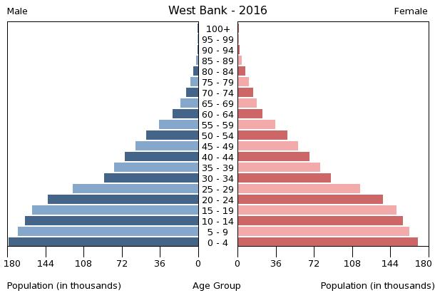 The population pyramid of West Bank illustrates the age and sex structure of population and may provide insights about political and social stability, as well as economic development. The population is distributed along the horizontal axis, with males shown on the left and females on the right. The male and female populations are broken down into 5-year age groups represented as horizontal bars along the vertical axis, with the youngest age groups at the bottom and the oldest at the top. The shape of the population pyramid gradually evolves over time based on fertility, mortality, and international migration trends.